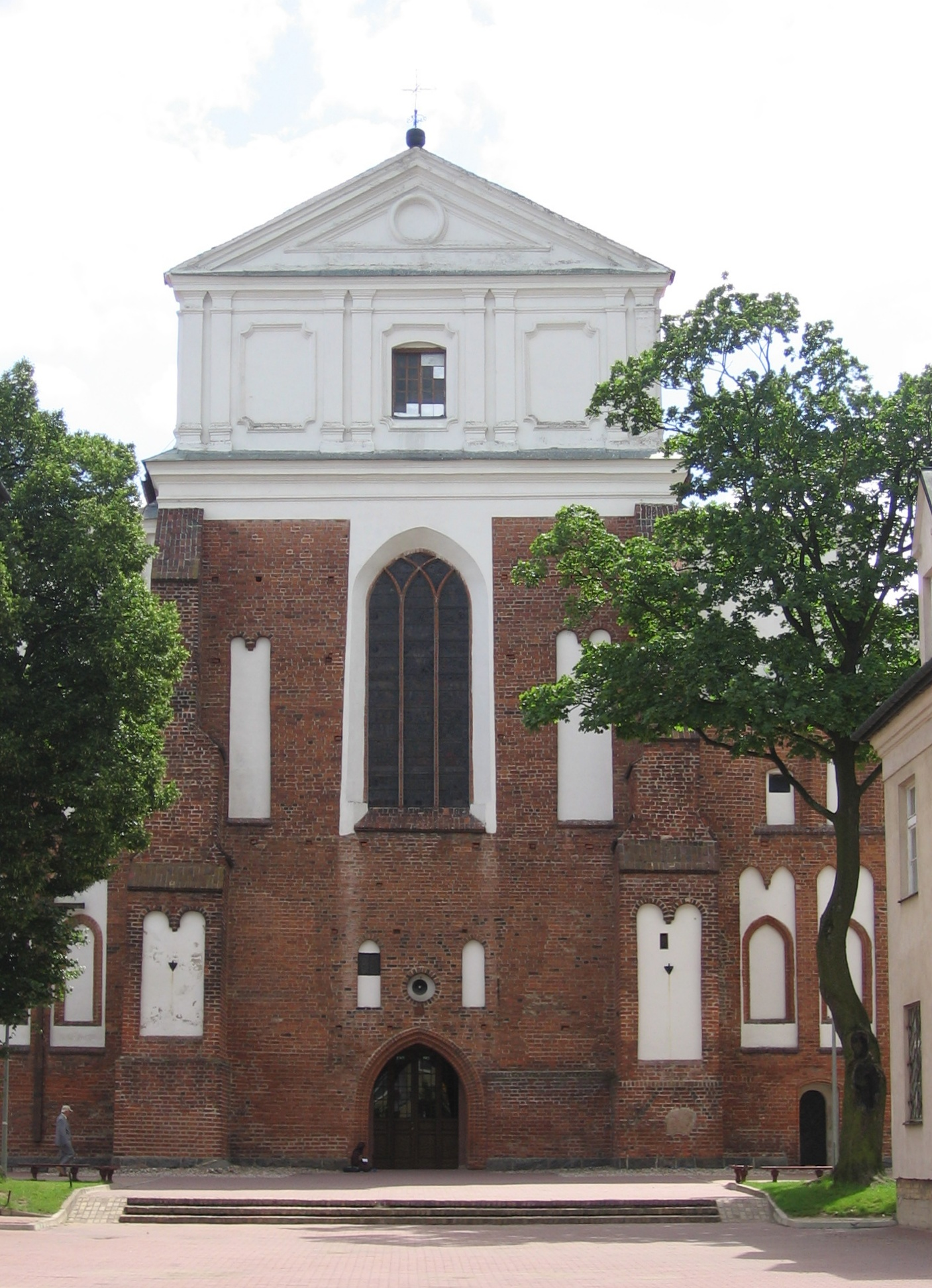 The cathedral in Łomża (view on facade)